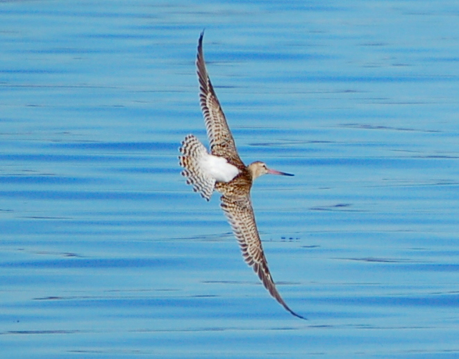 The Bar-tailed Godwit (Limosa lapponica)